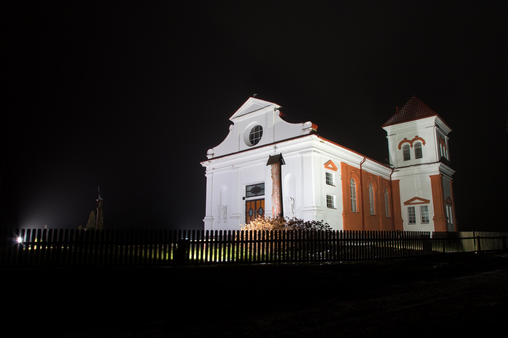 Aukstelke church